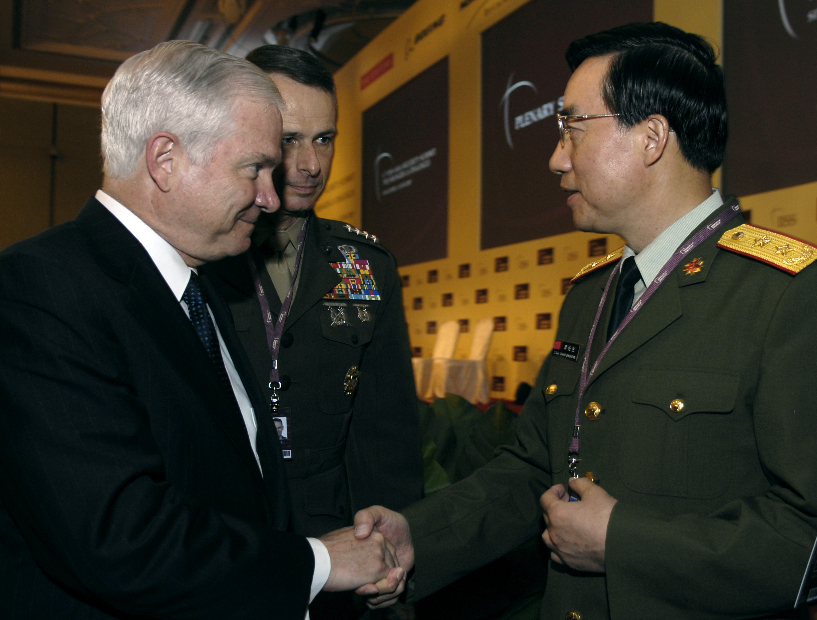 US Defense Secretary Robert M. Gates meets with Lt. Gen. Zhang Qinsheng, deputy chief of the General Staff of the PLA, China, in Singapore, June 2, 2007. Gen. Zhang spoke about India and China: Building International Stability. .